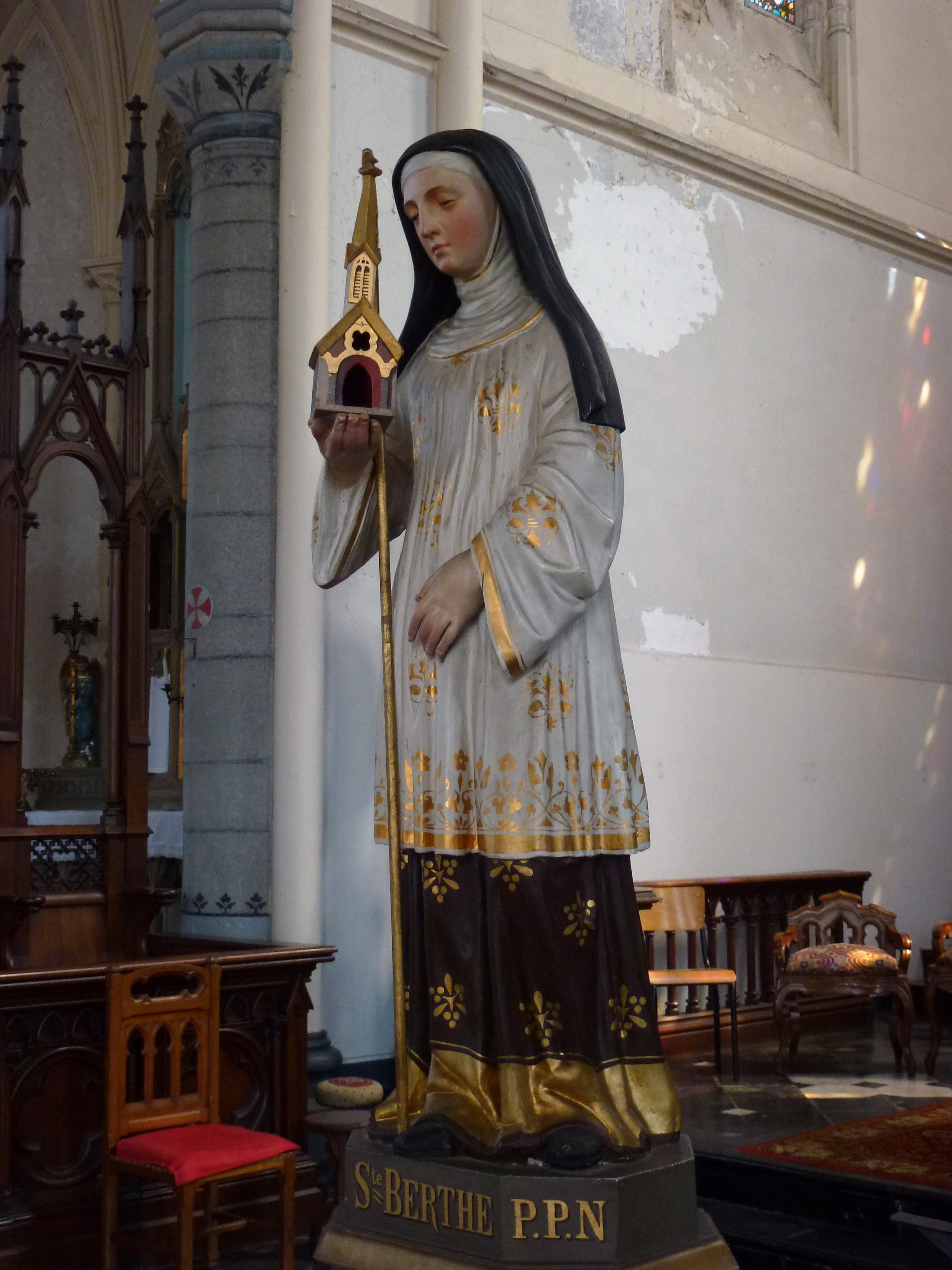 Auchy-lez-Orchies (Nord, Fr) église, statue Ste Berthe